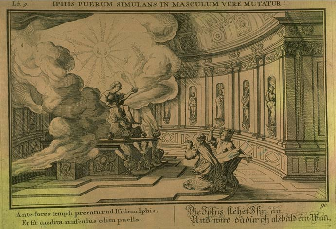 Isis changing the sex of Iphis. Engraving by Bauer for a 1703 edition of Ovid's Metamorphoses Book IX, 773-797.